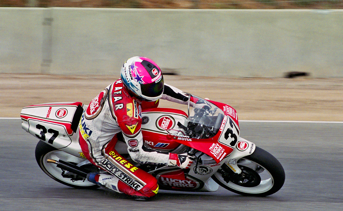 Simon Crafar at the 1993 USGP Laguna Seca